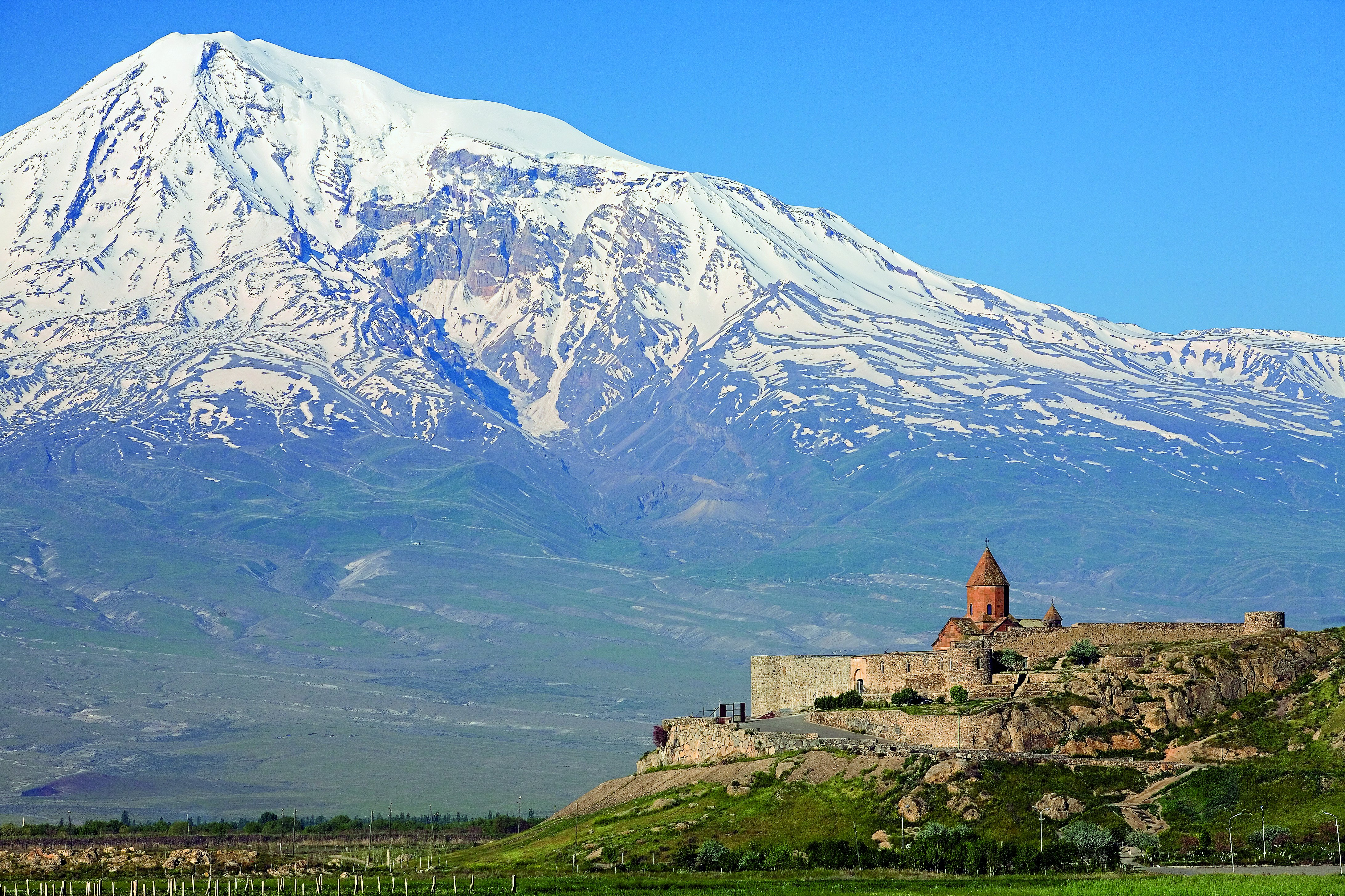 Khor-Virap Monastery